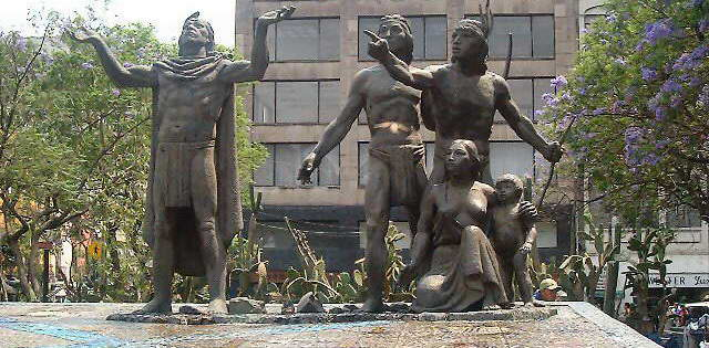 This is a statue representing the time when the Aztecs identified the signal given to them by their God, according to their own history. Their mythology said that in the place where they will discover an eagle standing on a nopal (a plant from Mexico) they should create their city. They did that, so they founded the great city of Tenochtitlan. This statue is just about 50 meters from the main block in Mexico City (called the "Zocalo").